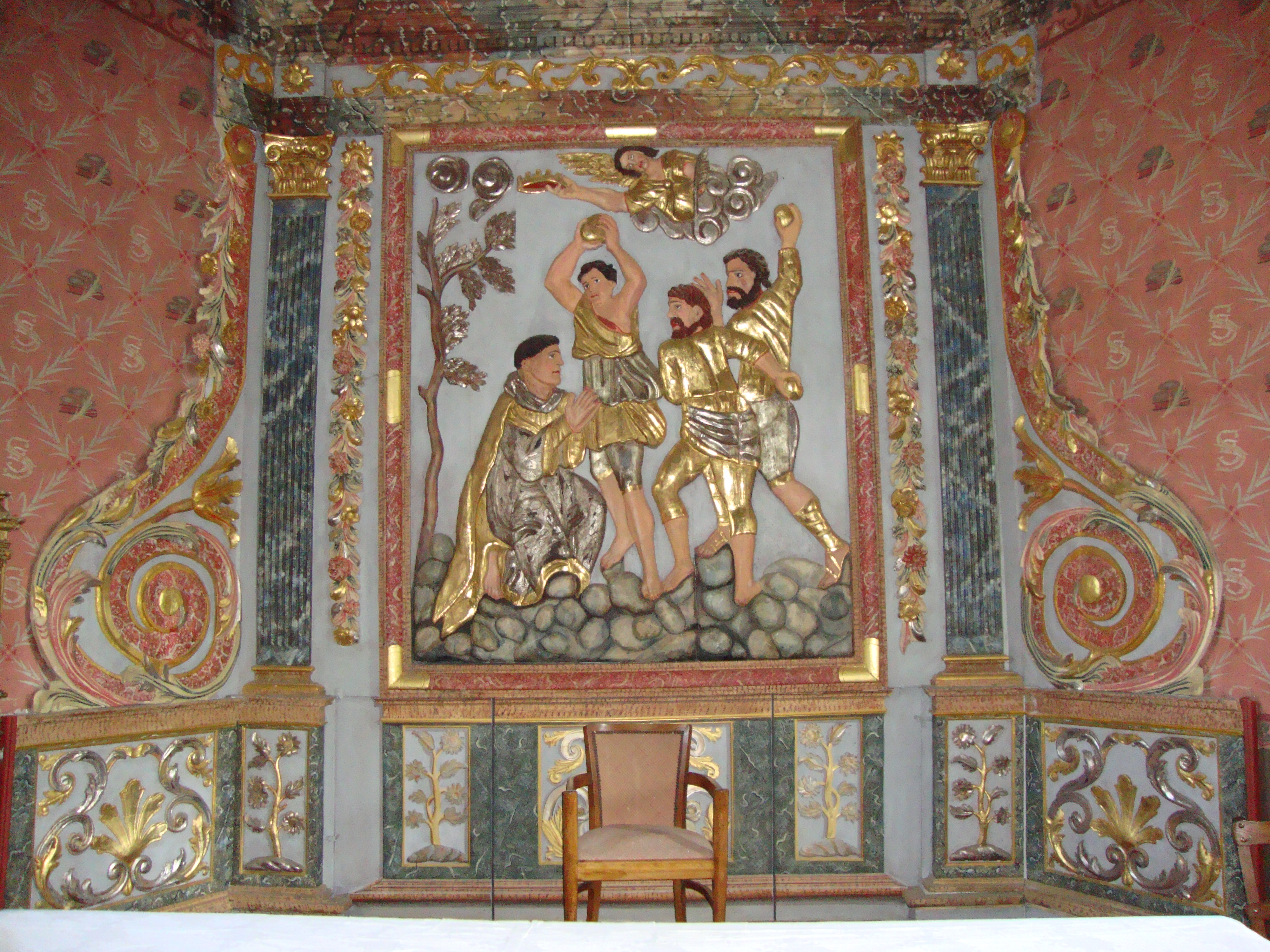 Lacarry (Lacarry e.a. Pyr-Atl, Fr) retable.